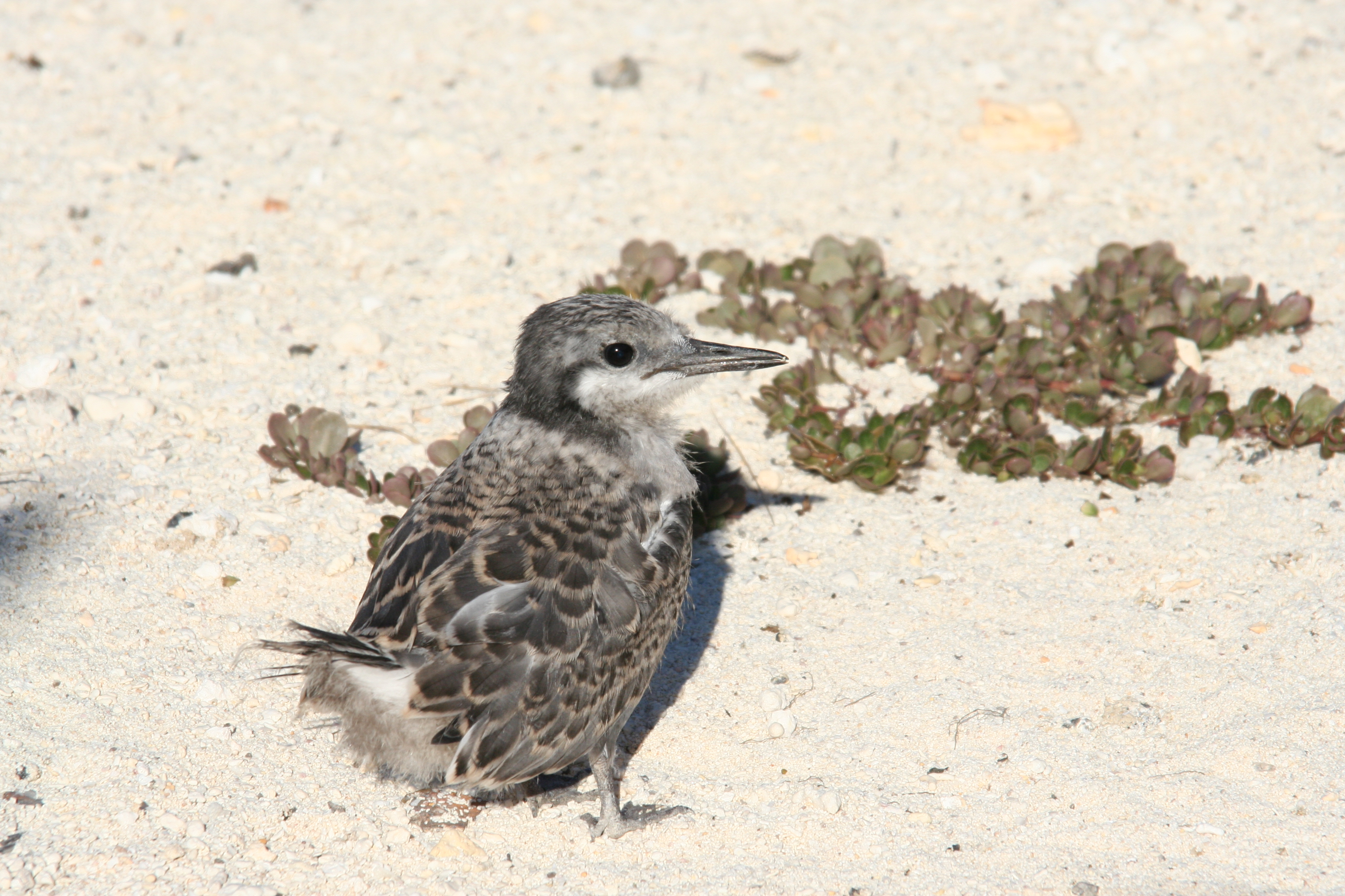 Partly feathered Grey-backed Tern Sterna lunata chick on Tern Island, French Frigate Shoals